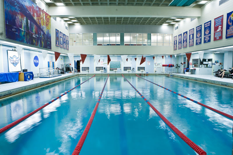 The St. Francis College Aquatics Center, located in the Pope Physical education center.